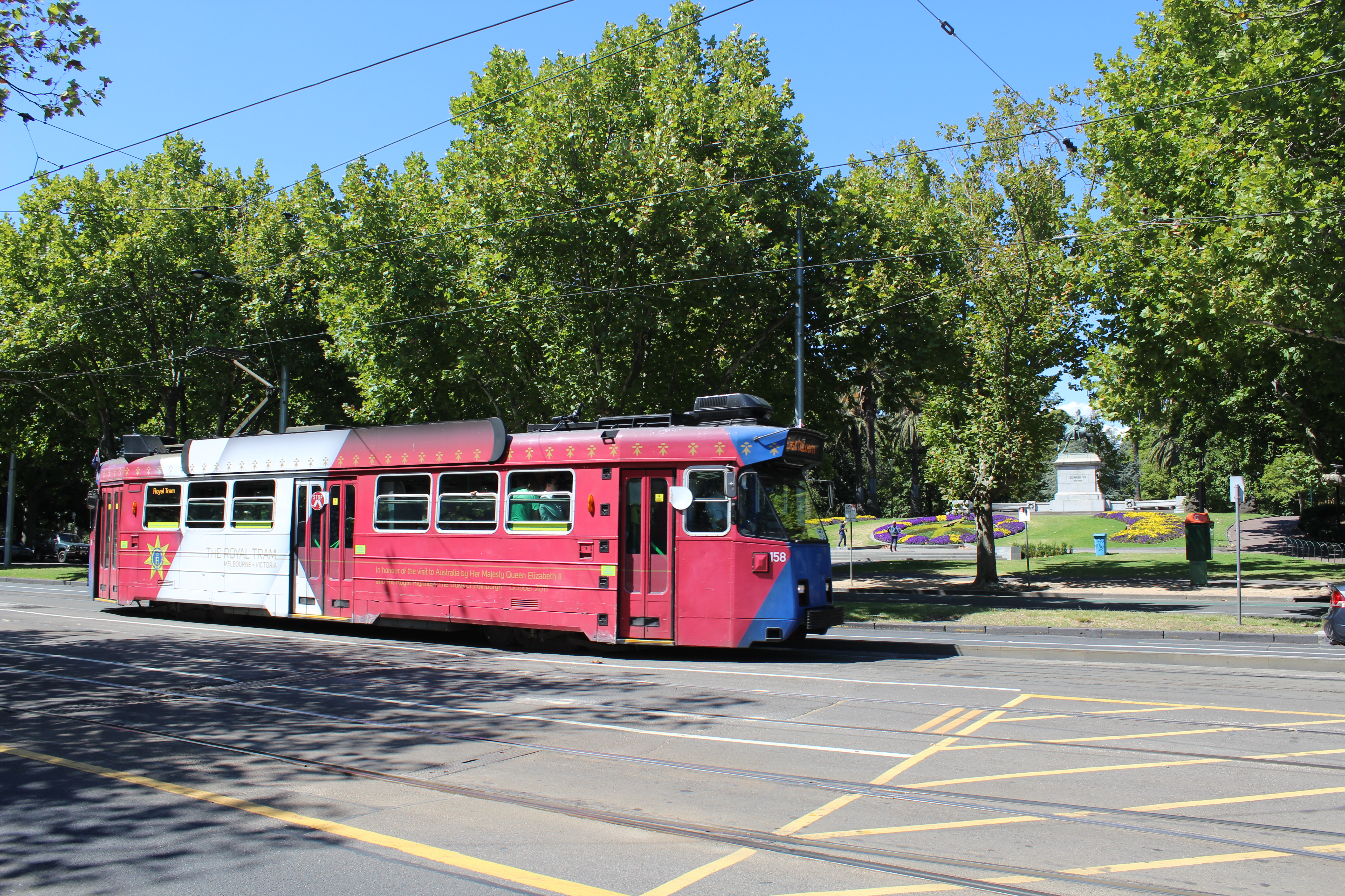 Z3 158 liveried as The Royal Tram in St Kilda Road, operating a route 3 service to East Malvern. In the background are Queen Victoria Gardens and Edward VII statue, 2013